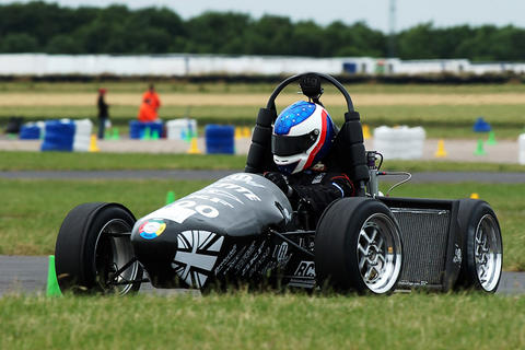 UH Racing in the class 1-200 event at FSUK 2006